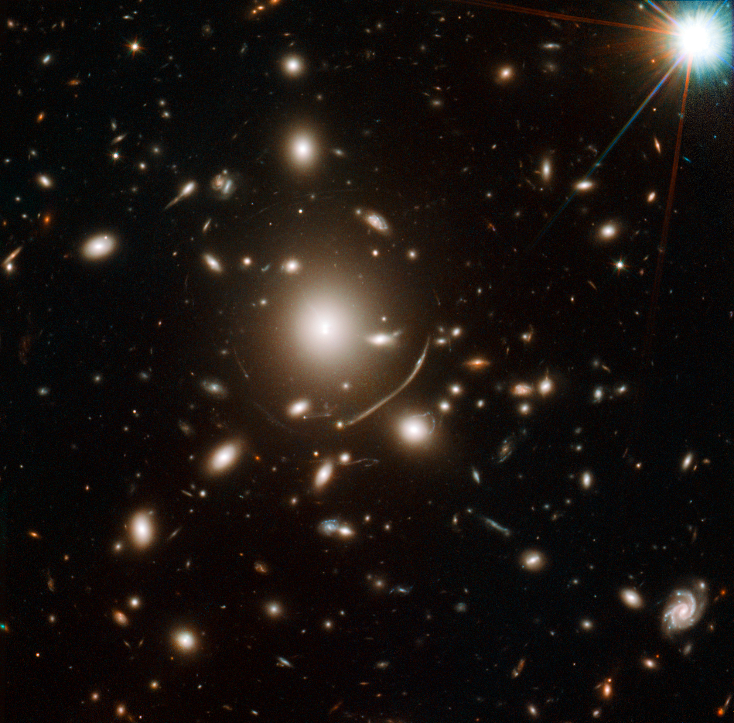 The giant cluster of elliptical galaxies in the centre of this image contains so much dark matter mass that its gravity bends light. This means that for very distant galaxies in the background, the cluster’s gravitational field acts as a sort of magnifying glass, bending and concentrating the distant object’s light towards Hubble. These gravitational lenses are one tool astronomers can use to extend Hubble’s vision beyond what it would normally be capable of observing. Using Abell 383, a team of astronomers have identified and studied a galaxy so far away we see it as it was less than a billion years after the Big Bang. Viewing this galaxy through the gravitational lens meant that the scientists were able to discern many intriguing features that would otherwise have remained hidden, including that its stars were unexpectedly old for a galaxy this close in time to the beginning of the Universe. This has profound implications for our understanding of how and when the first galaxies formed, and how the diffuse fog of neutral hydrogen that filled the early Universe was cleared.